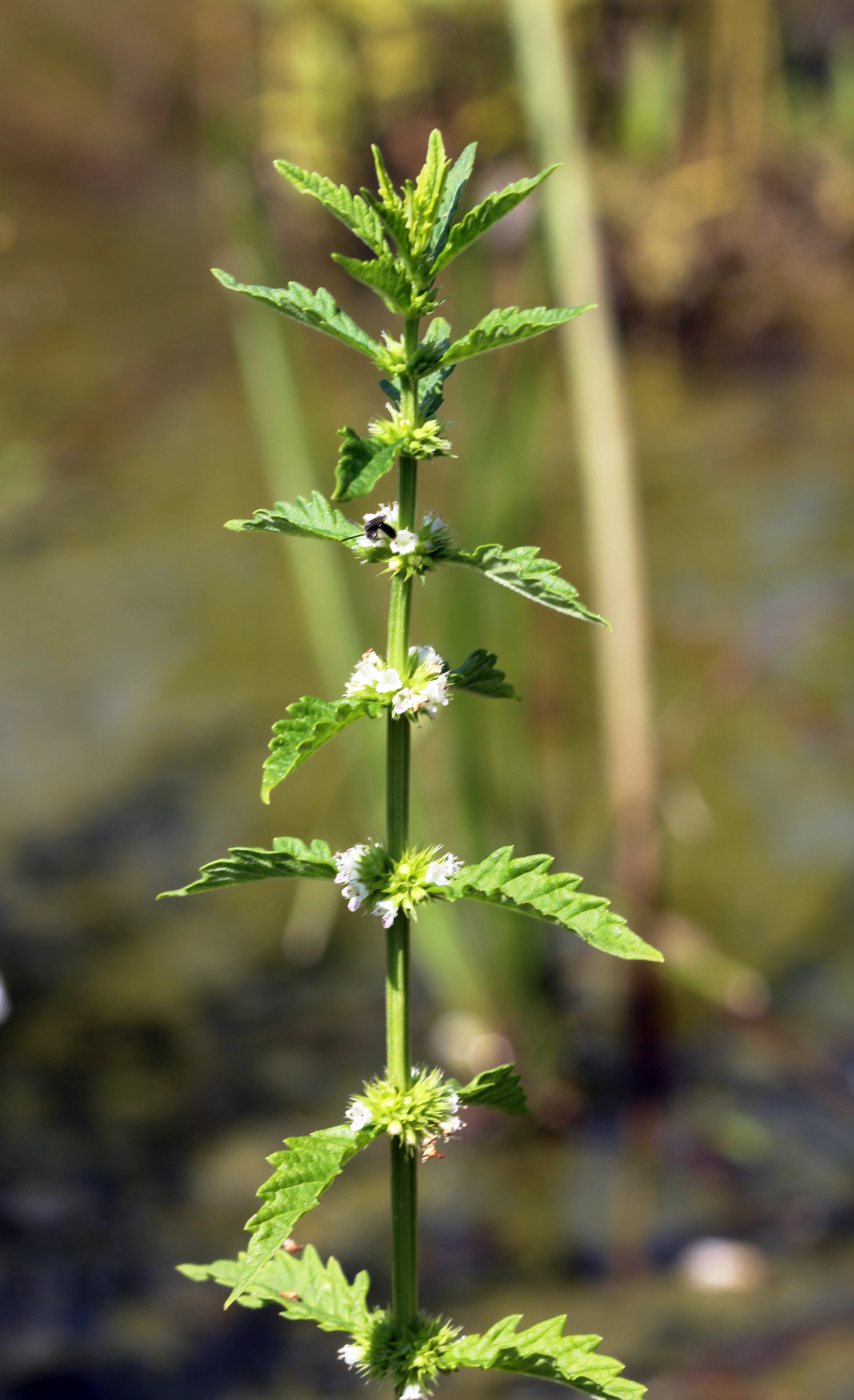 Plant Lycopus europaeus, (Lycopus europaeus), the Botanical Gardens of Charles University, Prague, Czech Republic